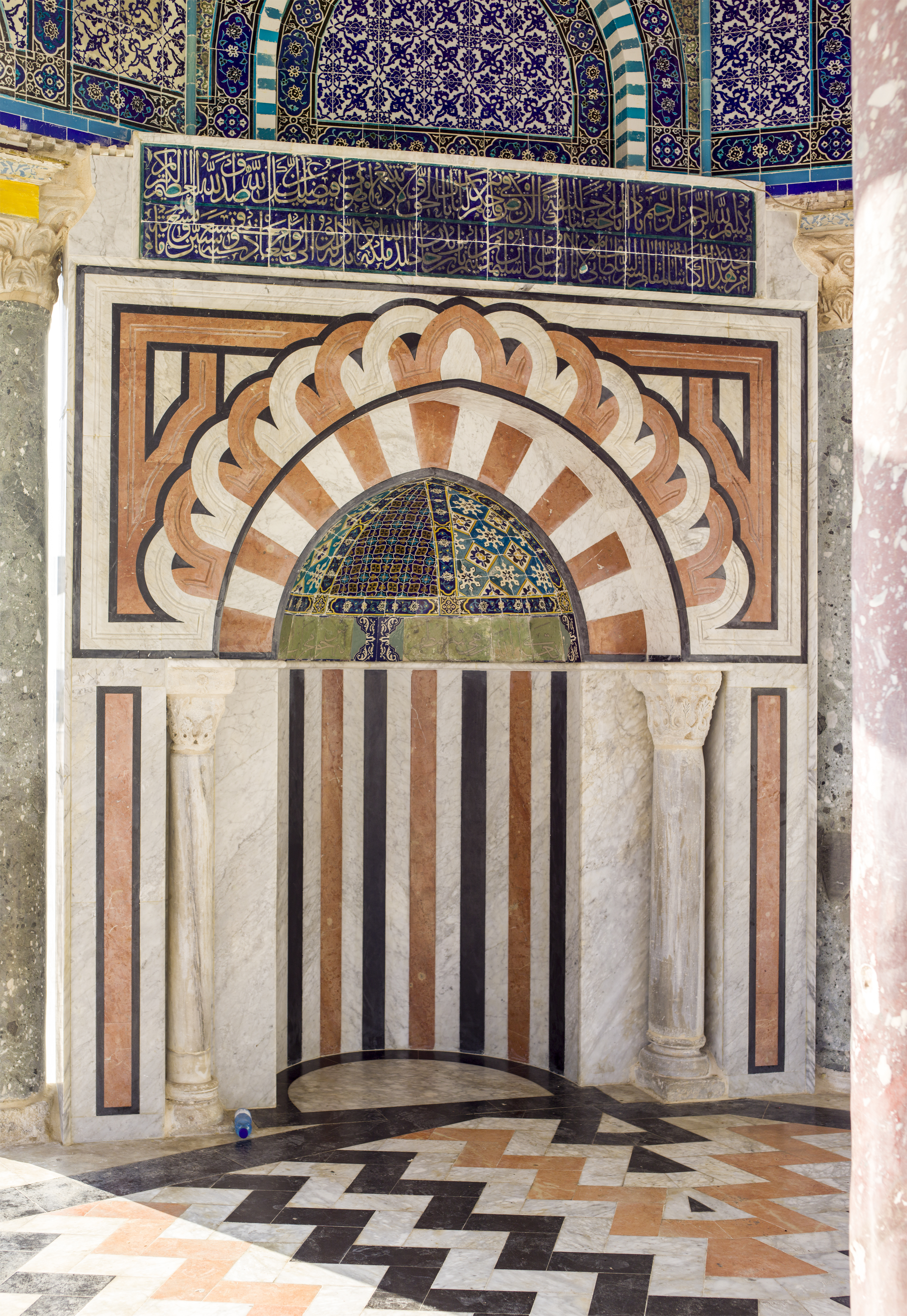 The mihrab of the Dome of the Chain (Arabic: قبة السلسلة, Qubbat al-Silsila), on the Temple Mount in the Old City of Jerusalem.